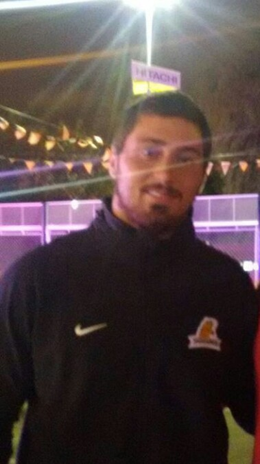 Javier Ortega Desio, argentinian rugby player